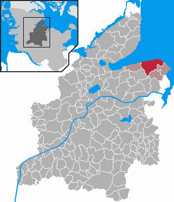 Locator maps of municipalities in Schleswig-Holstein - District Rendsburg-Eckernförde